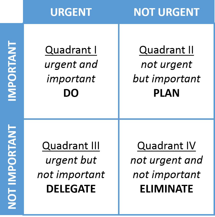 The decision-making matrix that Stephen Covey espoused was also based on the Eisenhower Matrix.